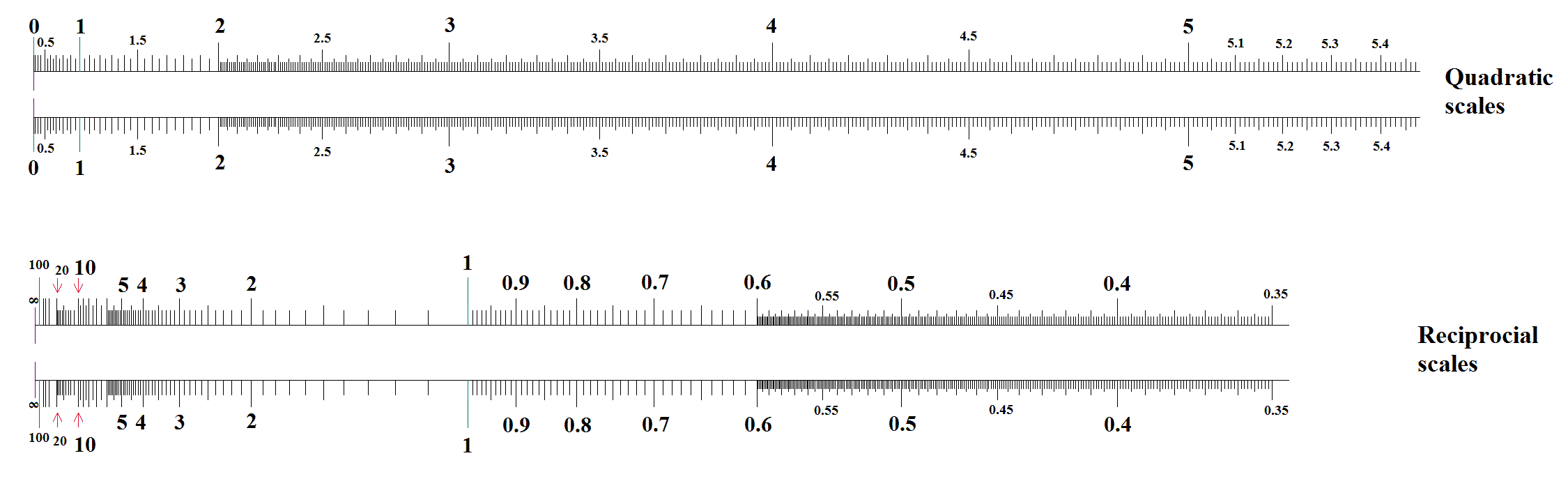 Quadratic and reciprocial scales, designed and constructed by myself (in 1977).